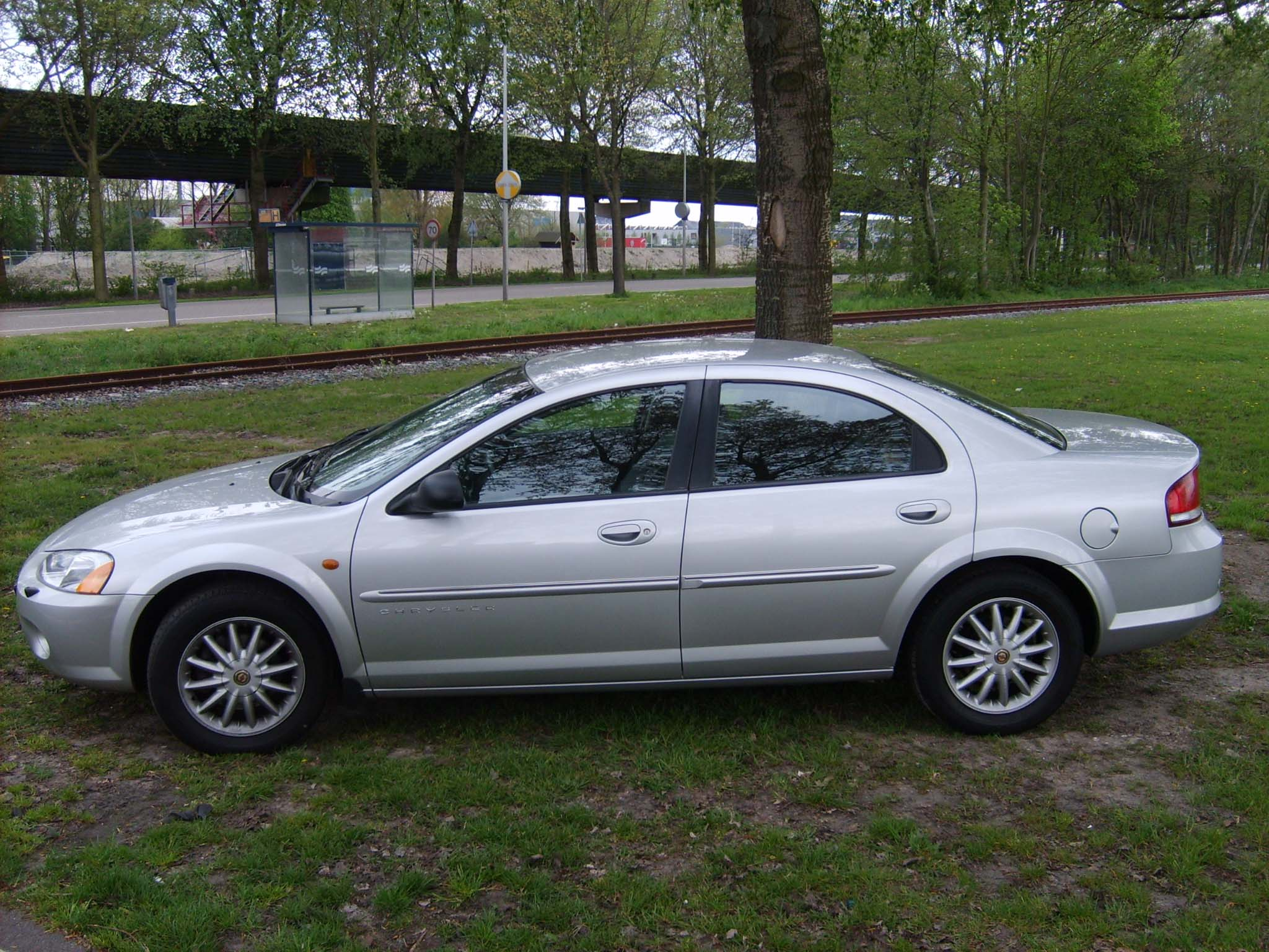 Chrysler Sebring